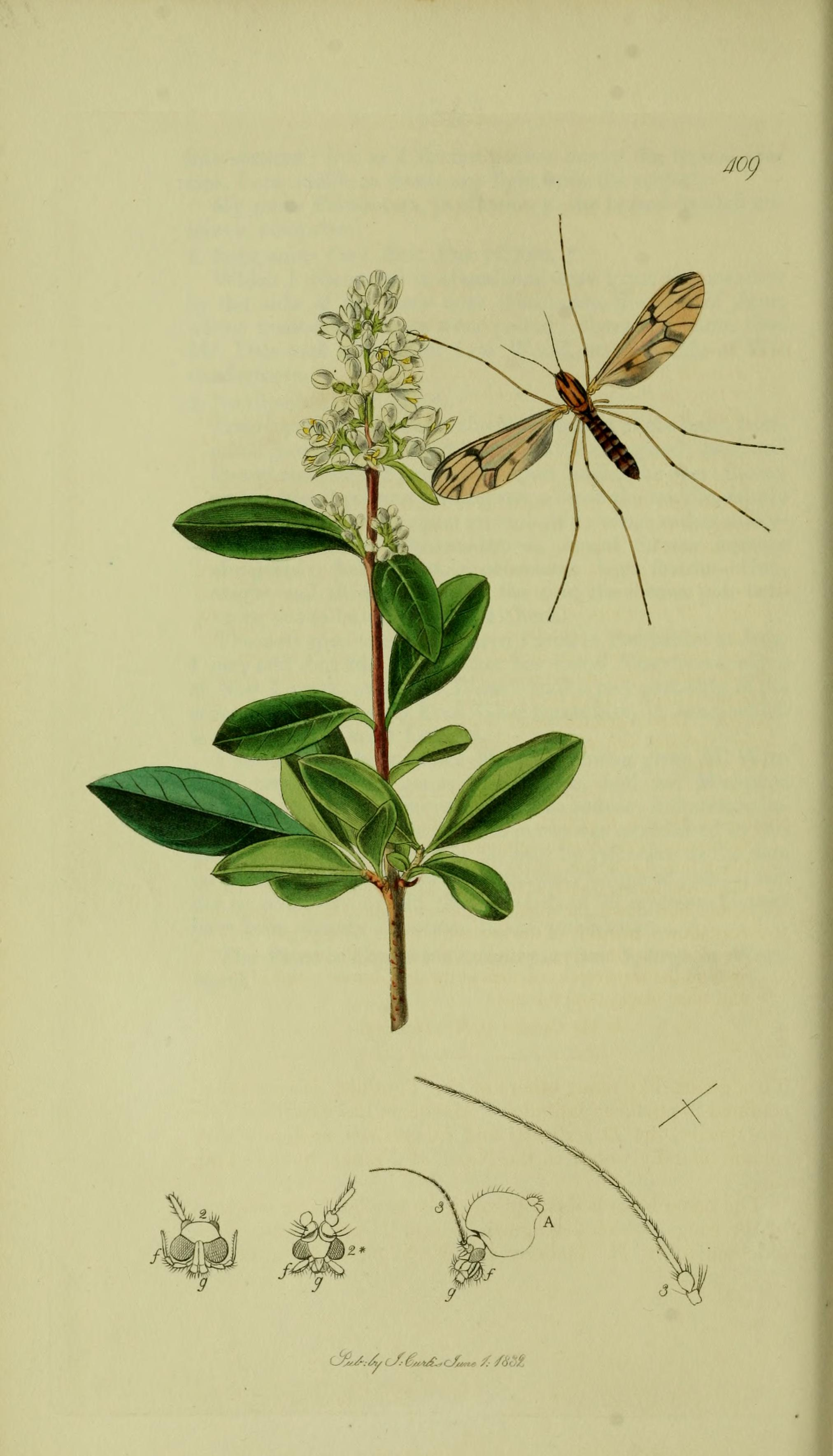 John Curtis British Entomology (1824-1840) Folio 409 Diptera: Dixa nebulosa the Clouded-winged Crane-fly. The plant is Ligustrum vulgare (Privet).